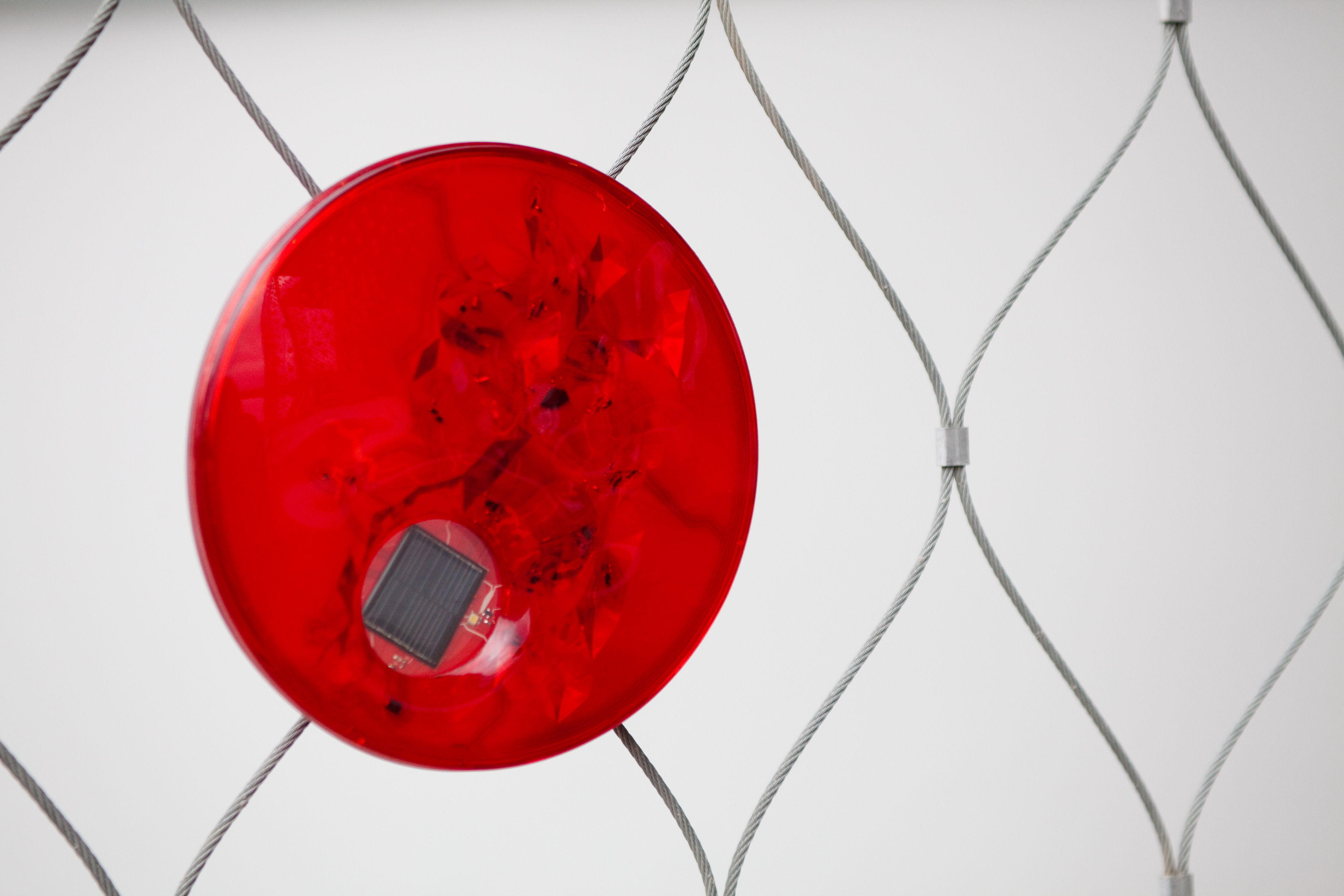 Swiss Pavilion Expo 2010 Shanghai: One of the photovoltaic cell of the interactive intelligent façade of the pavilion